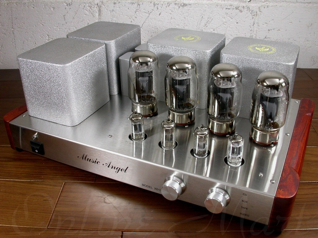 music angel